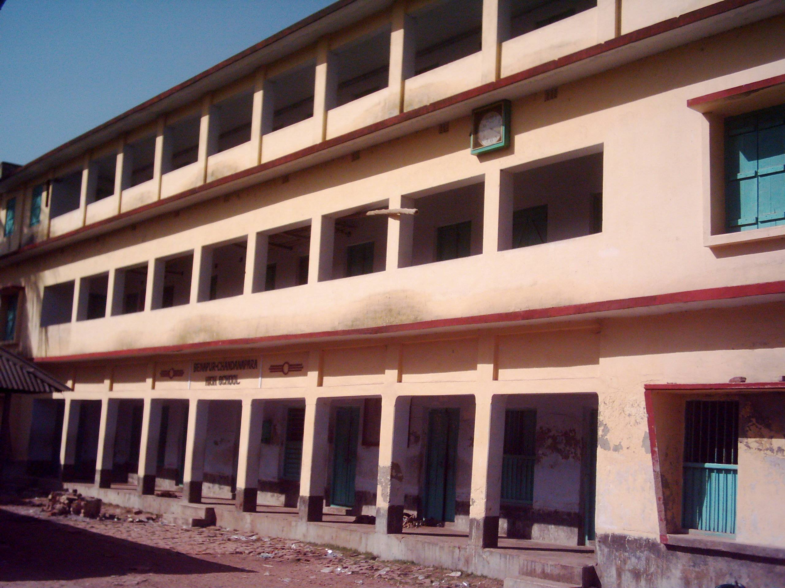 Benapur Chandanapara High School is one of the popular school in Bagnan.